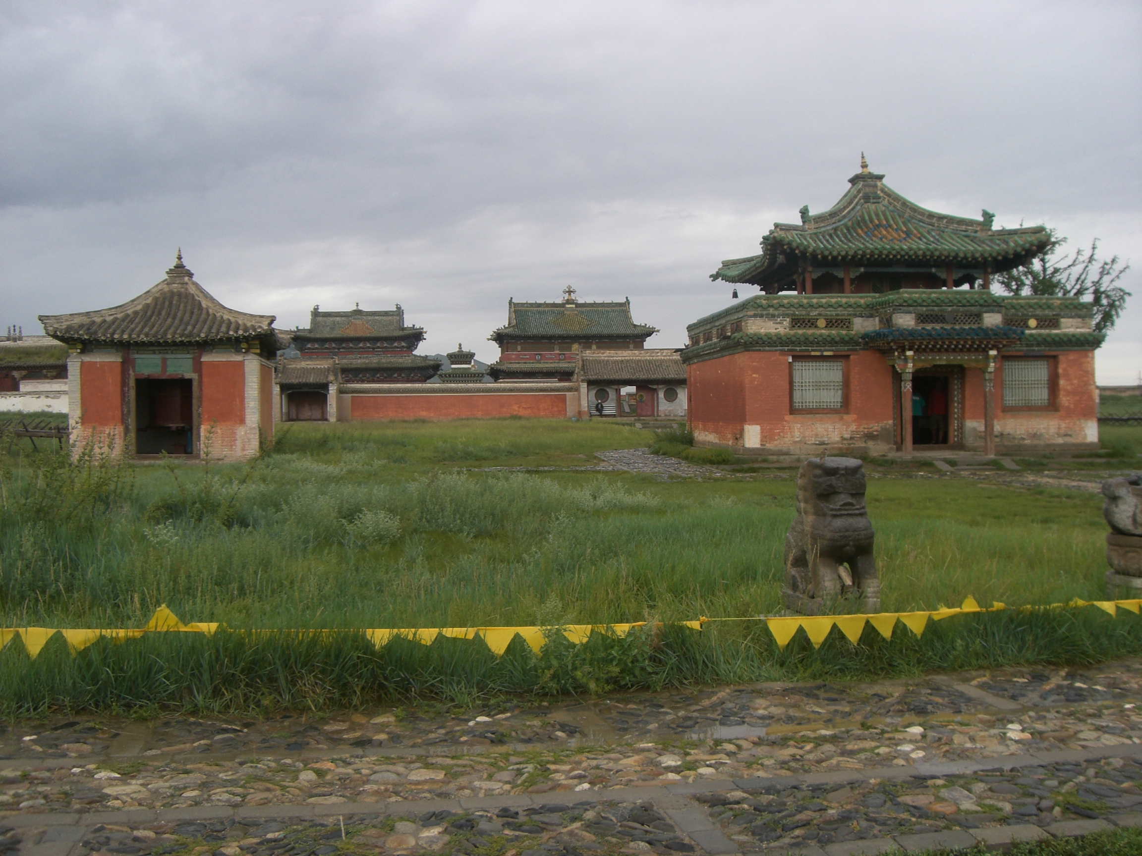 Monastery Erdene Zuu in Mongolia